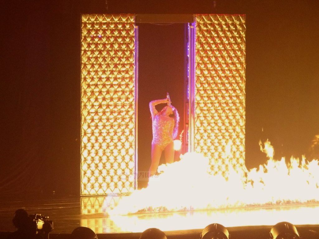 Beyonce performing "Naughty Girl" in Montreal in 2013 during The Mrs. Carter Show World Tour.